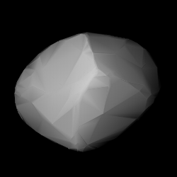 3D convex shape model of 1289 Kutaïssi, computed using light curve inversion techniques. J. Hanuš, J. Ďurech, M. Brož, B. D. Warner (June 2011). "A study of asteroid pole-latitude distribution based on an extended set of shape models derived by the lightcurve inversion method". Astronomy and Astrophysics 530: A134. ISSN 0004-6361. arXiv